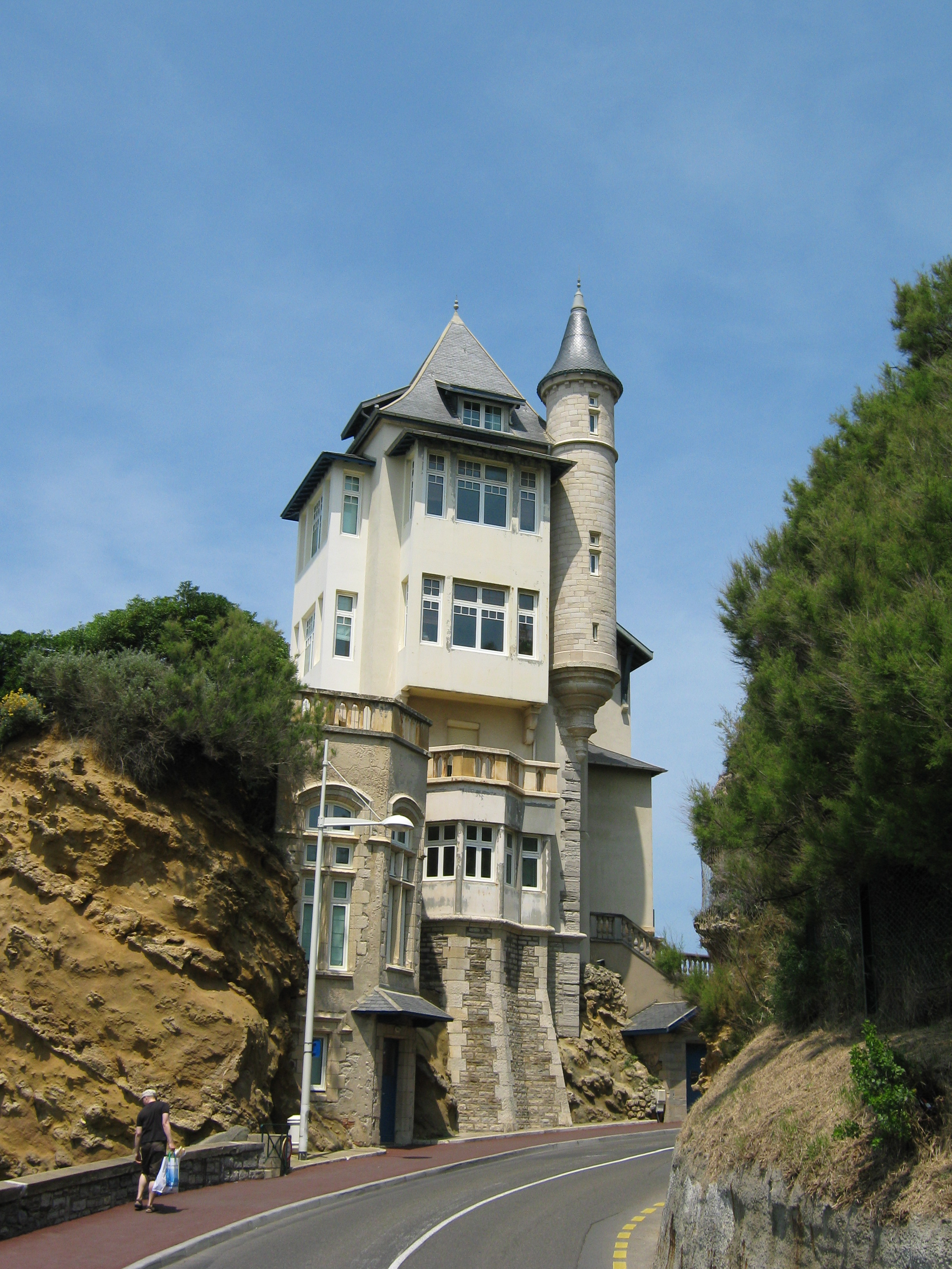 Villa Belza (Biarritz) from Avenue du prince de Galles